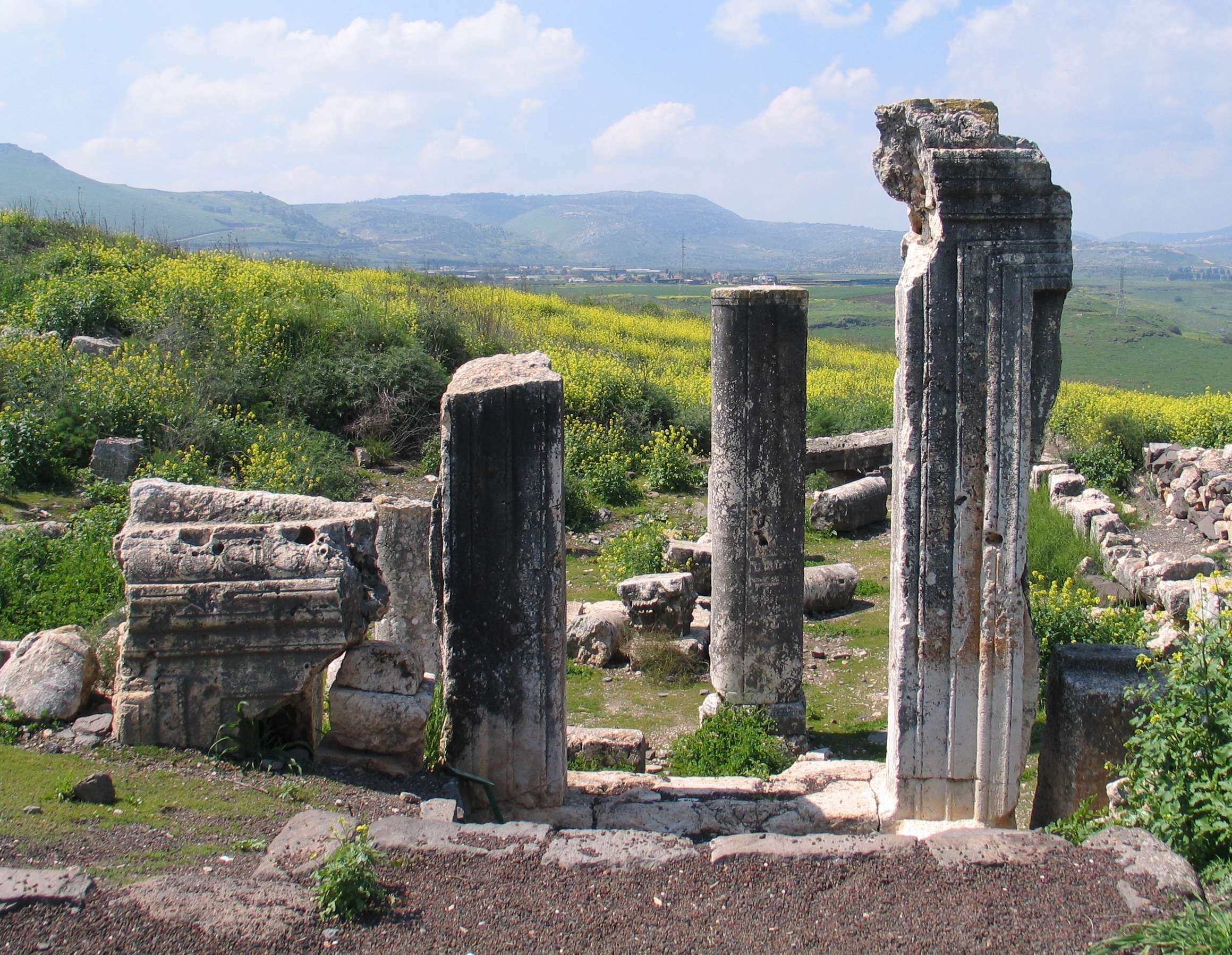 Ancient synagogue at Arbel, Israel.